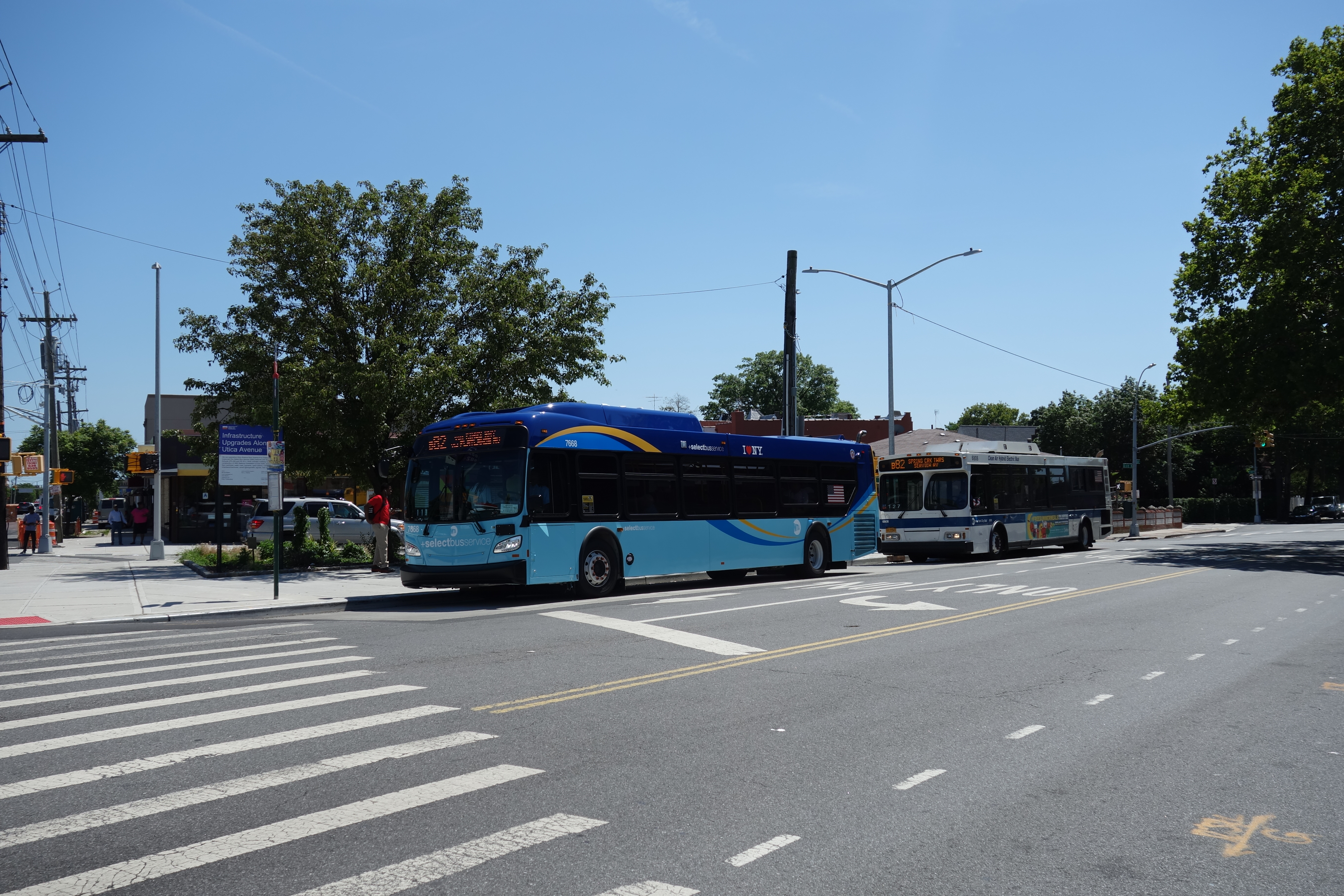 Two Spring Creek Towers (Starrett City)-bound B82 local buses stopped at a Greenstreets triangle at the southwest corner of Flatlands Avenue, Utica Avenue, and Avenue K in Flatlands, Brooklyn. The front bus, a New Flyer XD40, is wrapped for Select Bus Service, ready for whenever such a service should come to this route. The rear bus is a standard Orion VII hybrid bus.